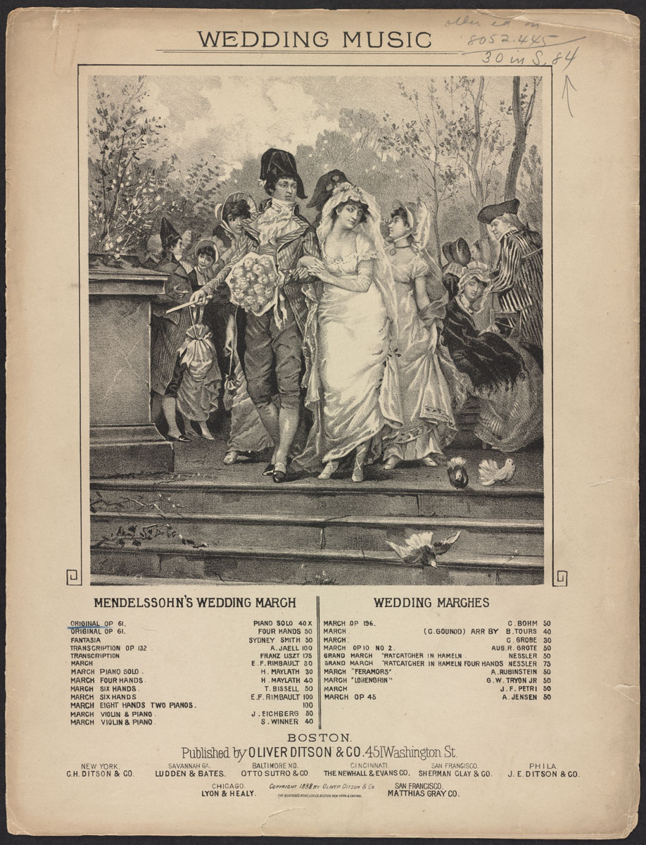 Sheet music for Mendelssohn's wedding march. Illustration shows Directoire (1790s) period bride and groom on their wedding day. Accession No.: 07_07_000209 Call Number: no. 30 of S.84 Lithographer: Bufford, John H. & Sons Title of Lithograph: Wedding March Composer: Mendelssohn Title of Composition: Wedding March Place of Publication: Boston Publisher: Oliver Ditson & Co. Date: 1888 BPL Department: Music Flickr data on 2011-08-06: Camera: Sinar AG Sinarback 54 FW, Sinar m Tags: dc:identifier=07_07_000209 License: CC BY 2.0 User: Boston Public Library BPL